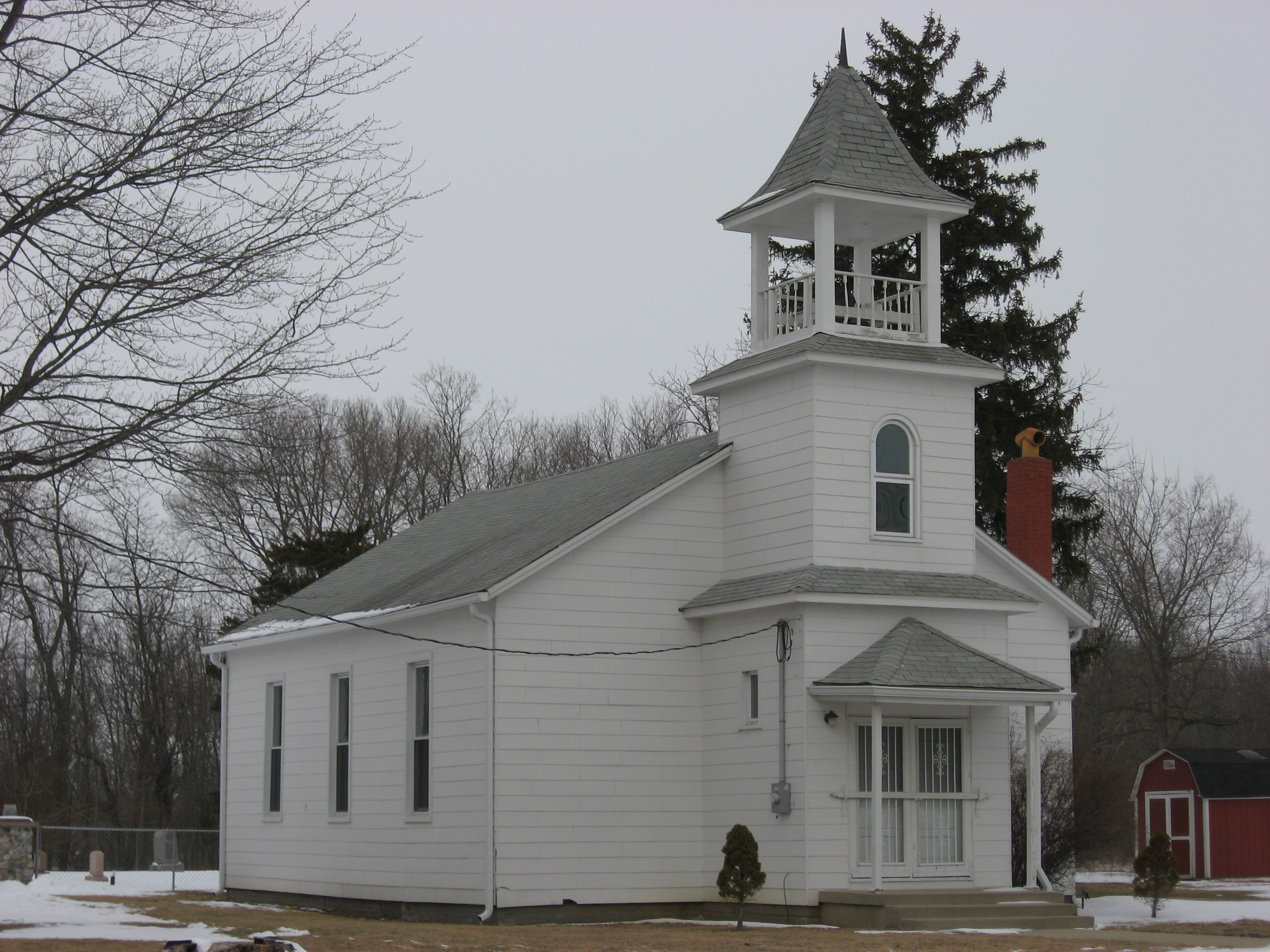 Front and western side of Roberts Chapel, located at 3102 E. 276th Street west of Atlanta in Jackson Township, Hamilton County, Indiana, United States. Built in 1847, it is listed on the National Register of Historic Places.